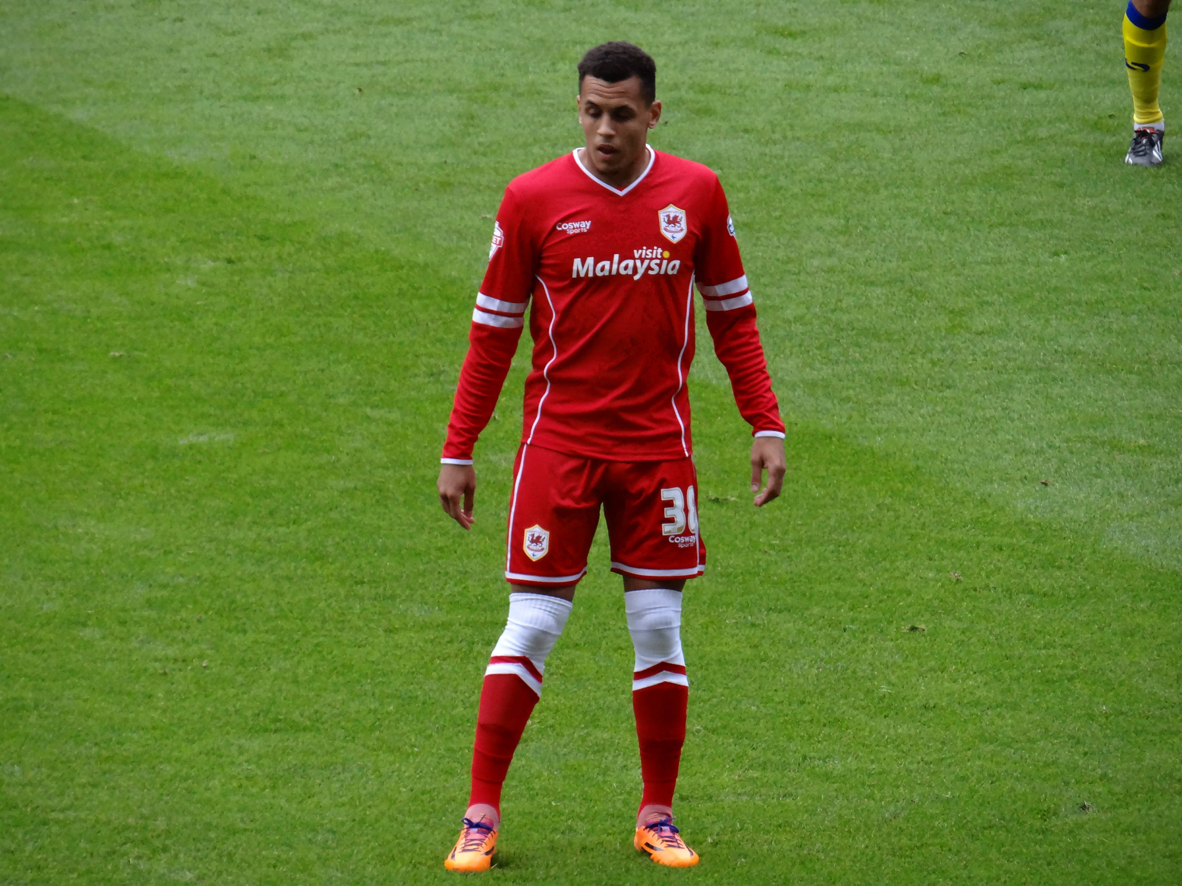 Ravel Morrison playing on loan for Cardiff City